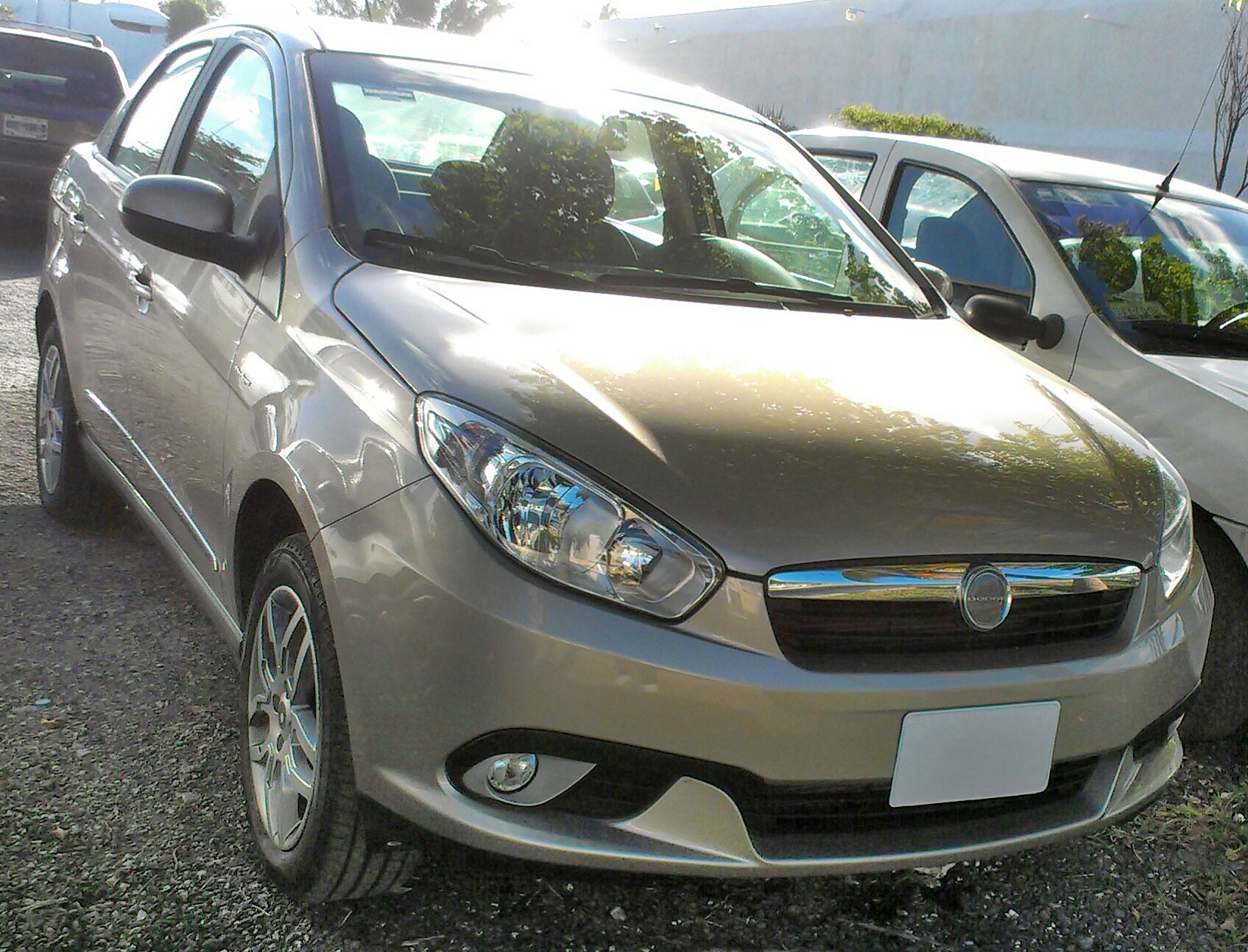 2015 Dodge Vision photographed in Cancùn, Quintana Roo, Mexico.